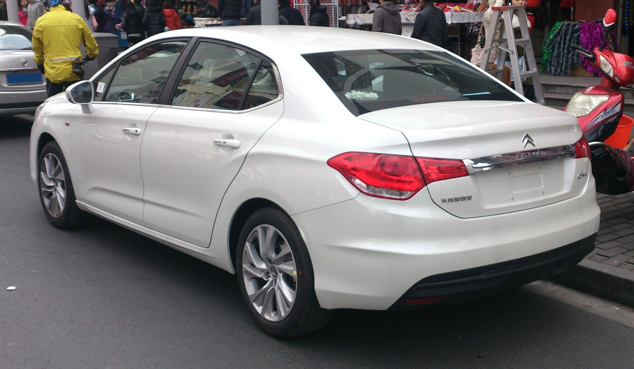 Citroën C4L photographed in Shanghai, China.